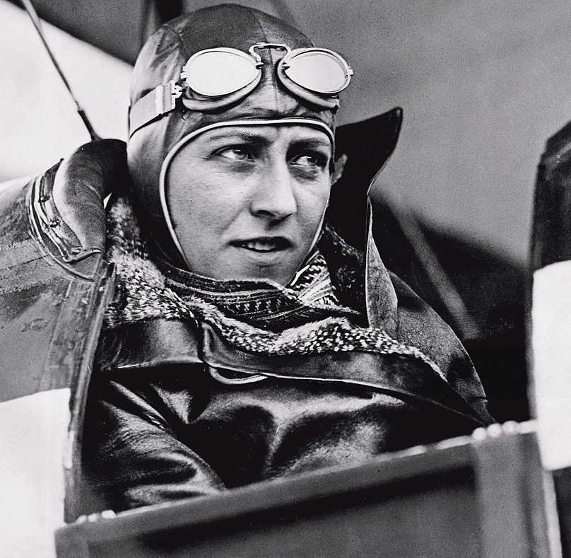 English Aviatrix Amy Johnson in her Black Hawk Moth leaving Australia for Newcastle, 14 June 1930